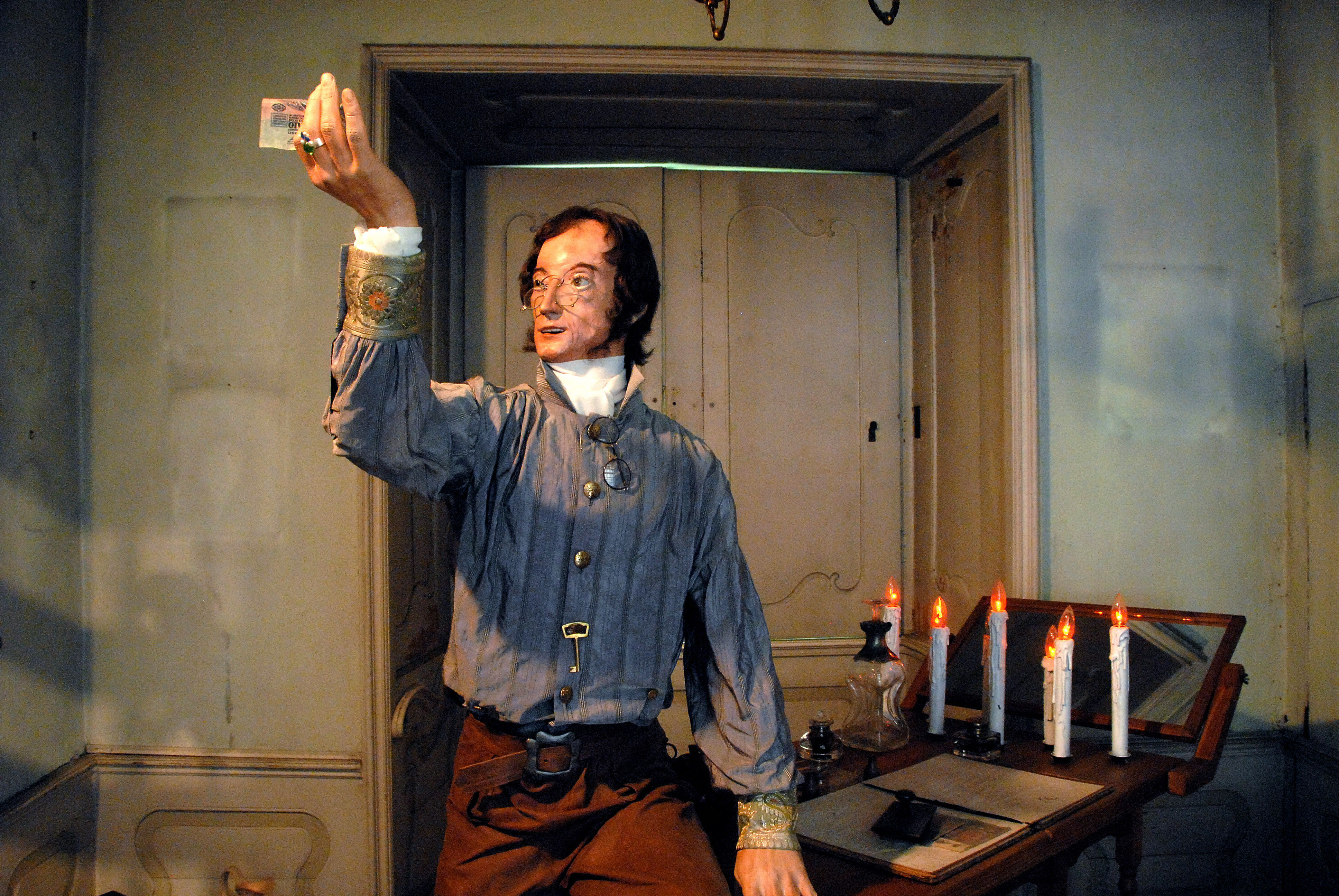 Peter Ritter von Bohr, counterfeiter, entrepreneur, noble person and painter, doll exposed in the castle at Rosegg, market town Rosegg, district Villach Land, Carinthia, Austria, EU